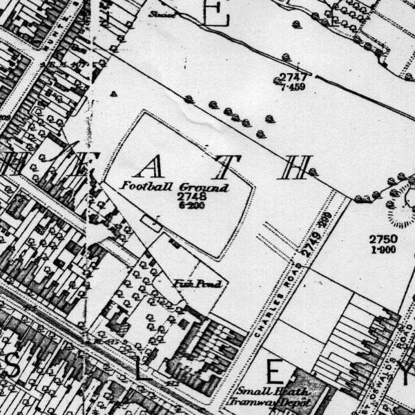 An Ordnance Survey map from 1890 showing Muntz Street, the home ground of Small Heath F.C. (now called Birmingham City F.C.), which was demolished in 1907